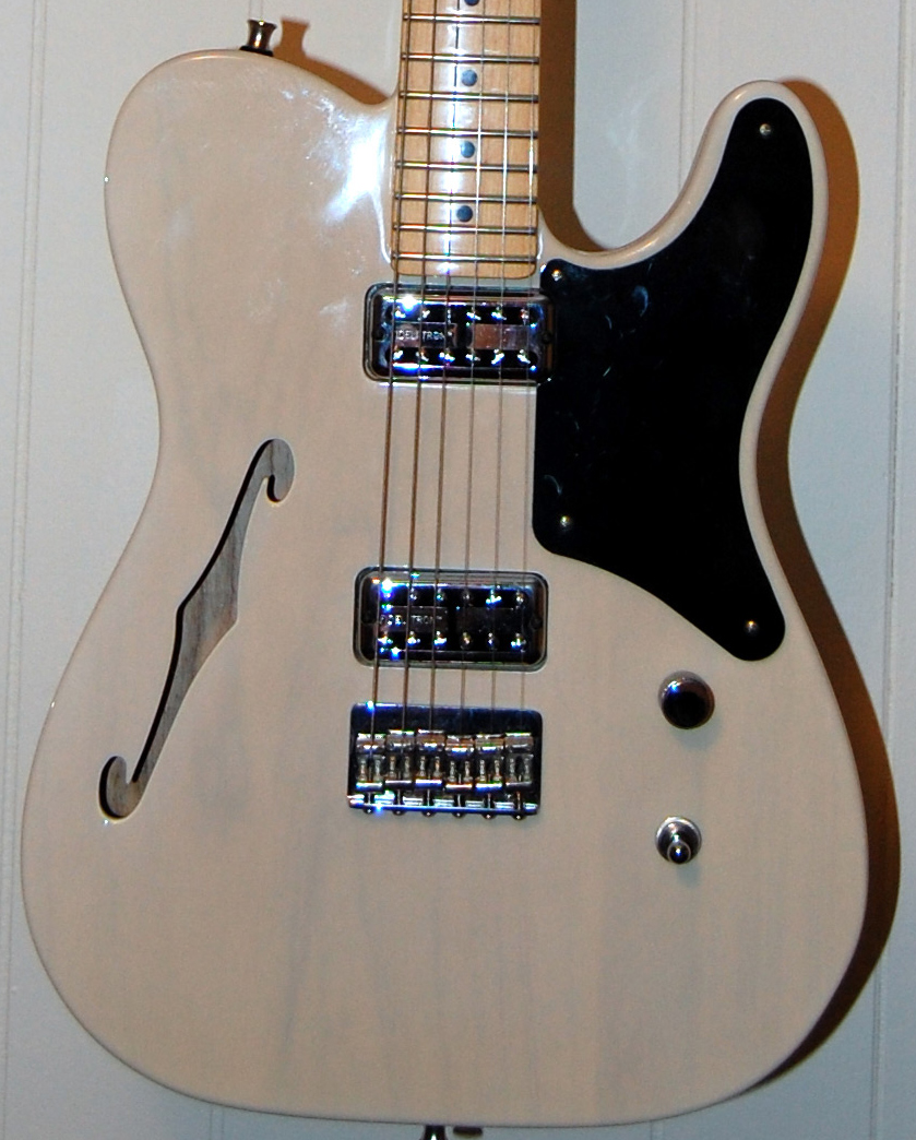 2012 Fender Telecaster Cabronita, made in Mexico, with Fidelitron pickups, white blonde finish over ash body and maple neck. Closeup of body